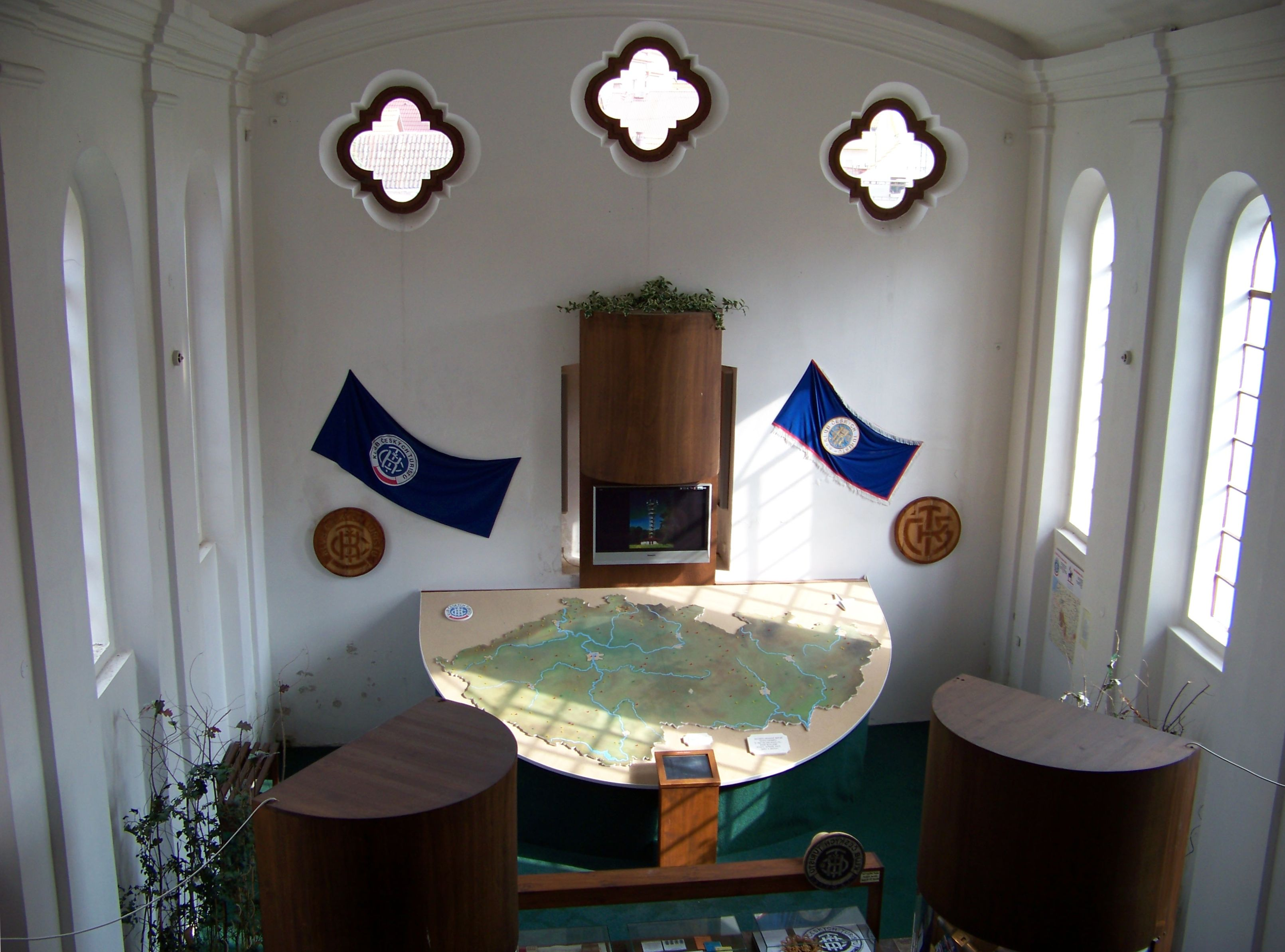 Tourism Museum (former synagouge) in Bechyně, Tábor District, South Bohemian Region, the Czech Republic, former synagogue in Široká street.